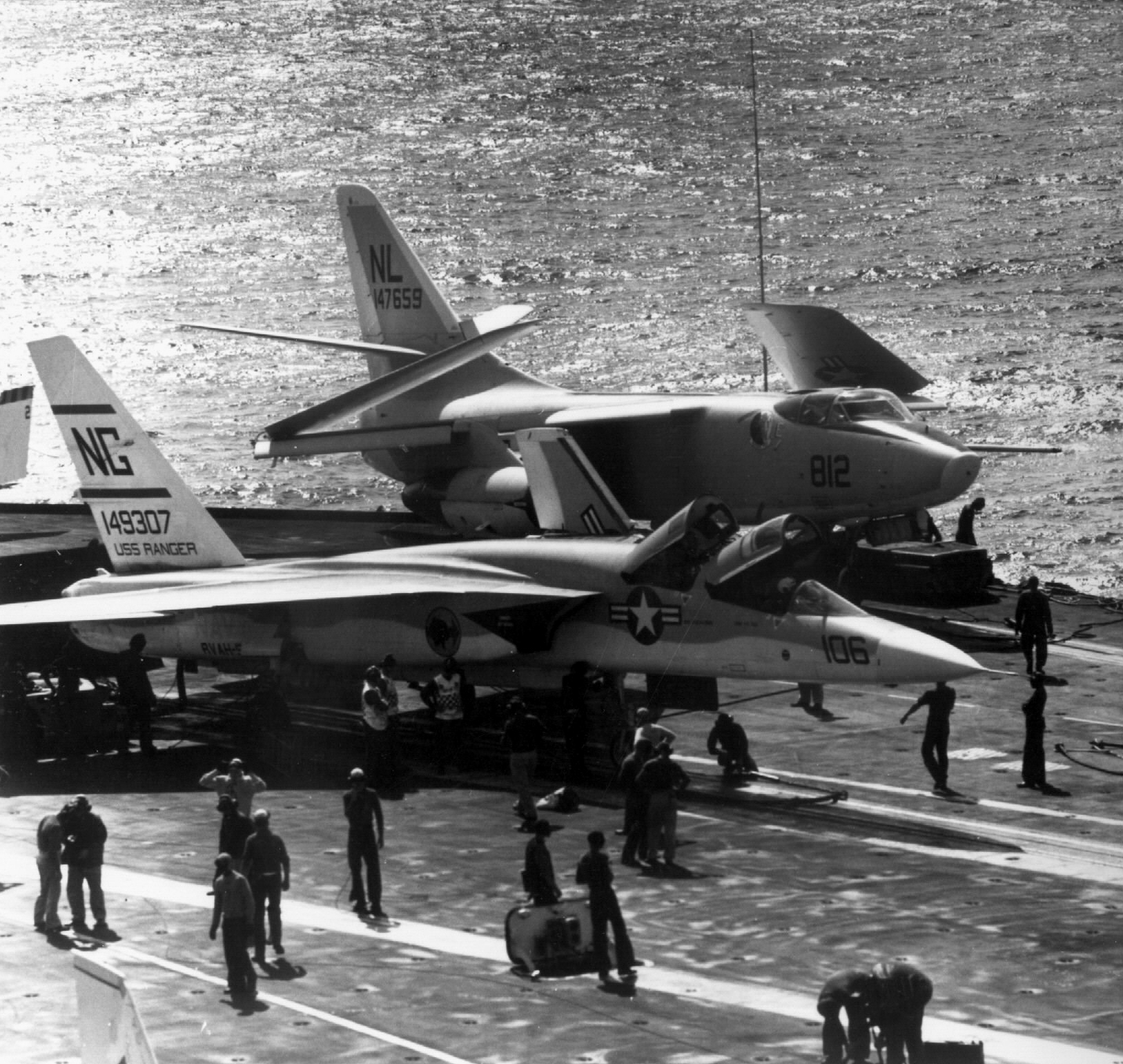 A U.S. Navy North American RA-5C Vigilante (BuNo 149307) from Heavy Reconnaissance Squadron RVAH-5 Savage Sons and a Douglas A-3B Skywarrior (BuNo 147659) from Heavy Attack Squadron VAH-2 Det.M Royal Rampants are readied for launching on the waist catapults of the aircraft carrier USS Ranger (CVA-61). Both squadrons were assigned for Carrier Air Wing 9 (CVW-9) aboard the Ranger for a deployment to Vietnam from 5 August 1964 to 6 May 1965. The RA-5C 149307 was retired to the MASDC as 4A0003 on 23 August 1970, the (later converted) EKA-3B 147659 as 2A0079 on 16 October 1973.